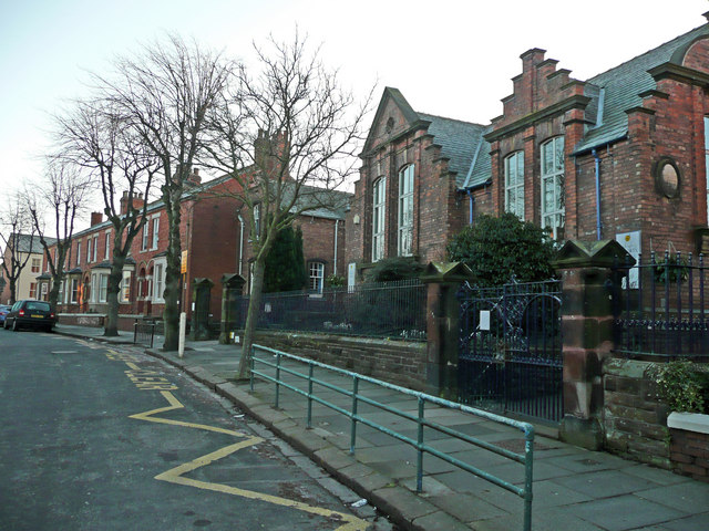 Stanwix Primary School On Mulcaster Crescent to the north of Carlisle city centre.